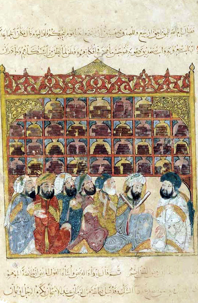 A delicate illustration by Yahya ibn Mahmud al-Wasiti in the book of The Assemblies.